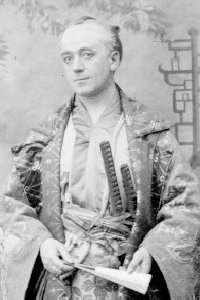 Published illustration of Frederick Bovill as Pish-Tush in The Mikado (1885)